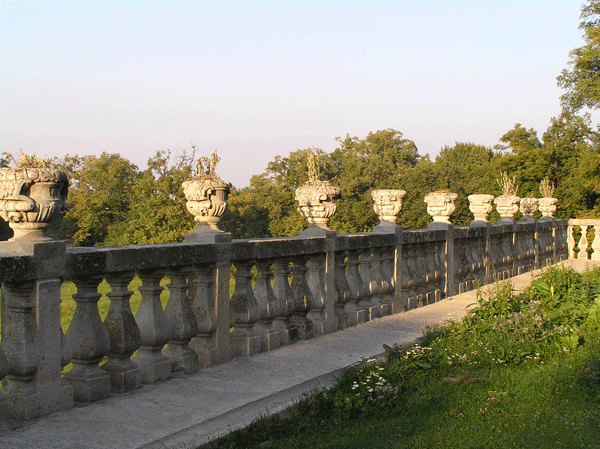 The castle in Podhorce (Ukraine).